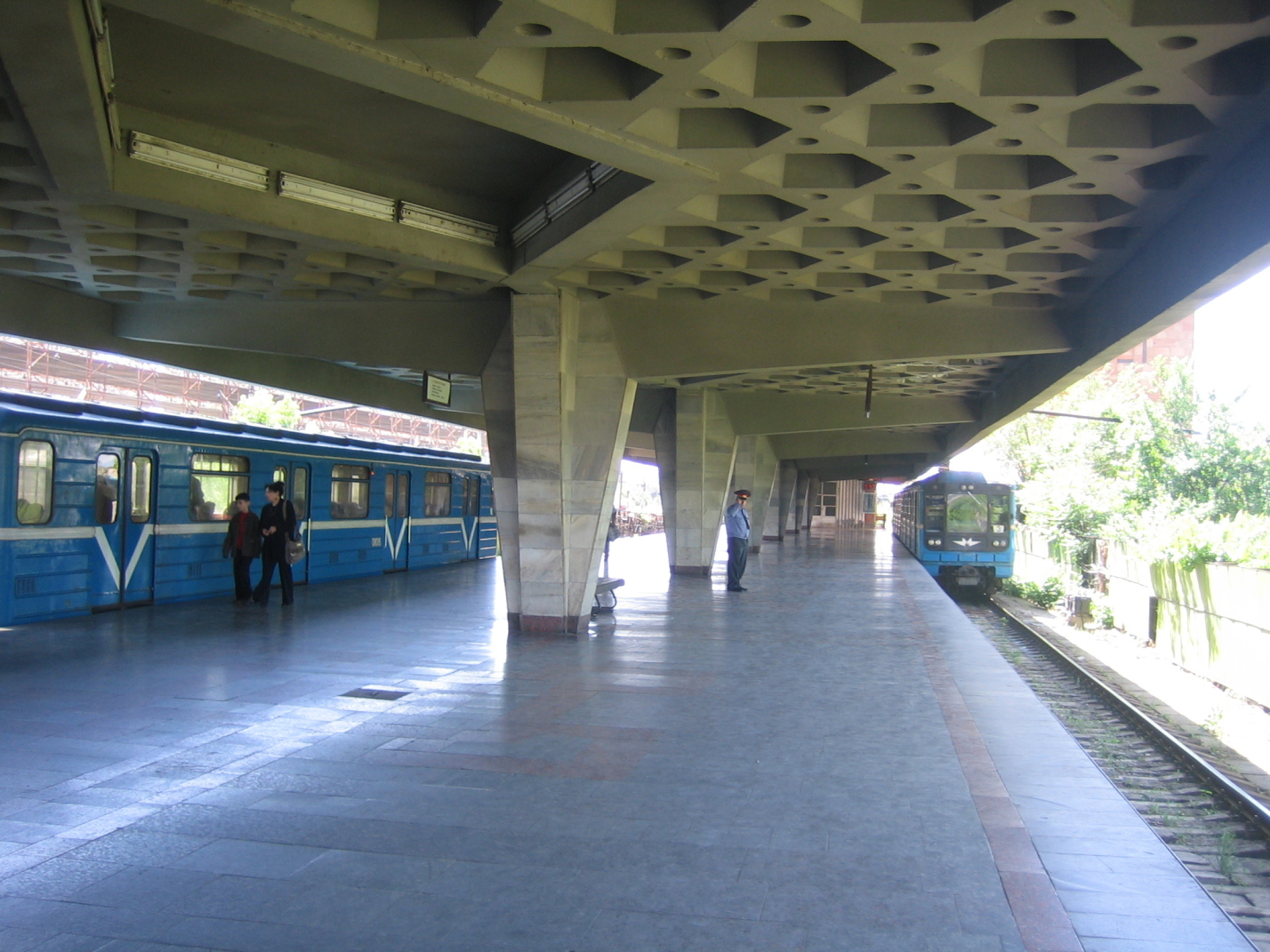 David of Sasoon Metro Station platform